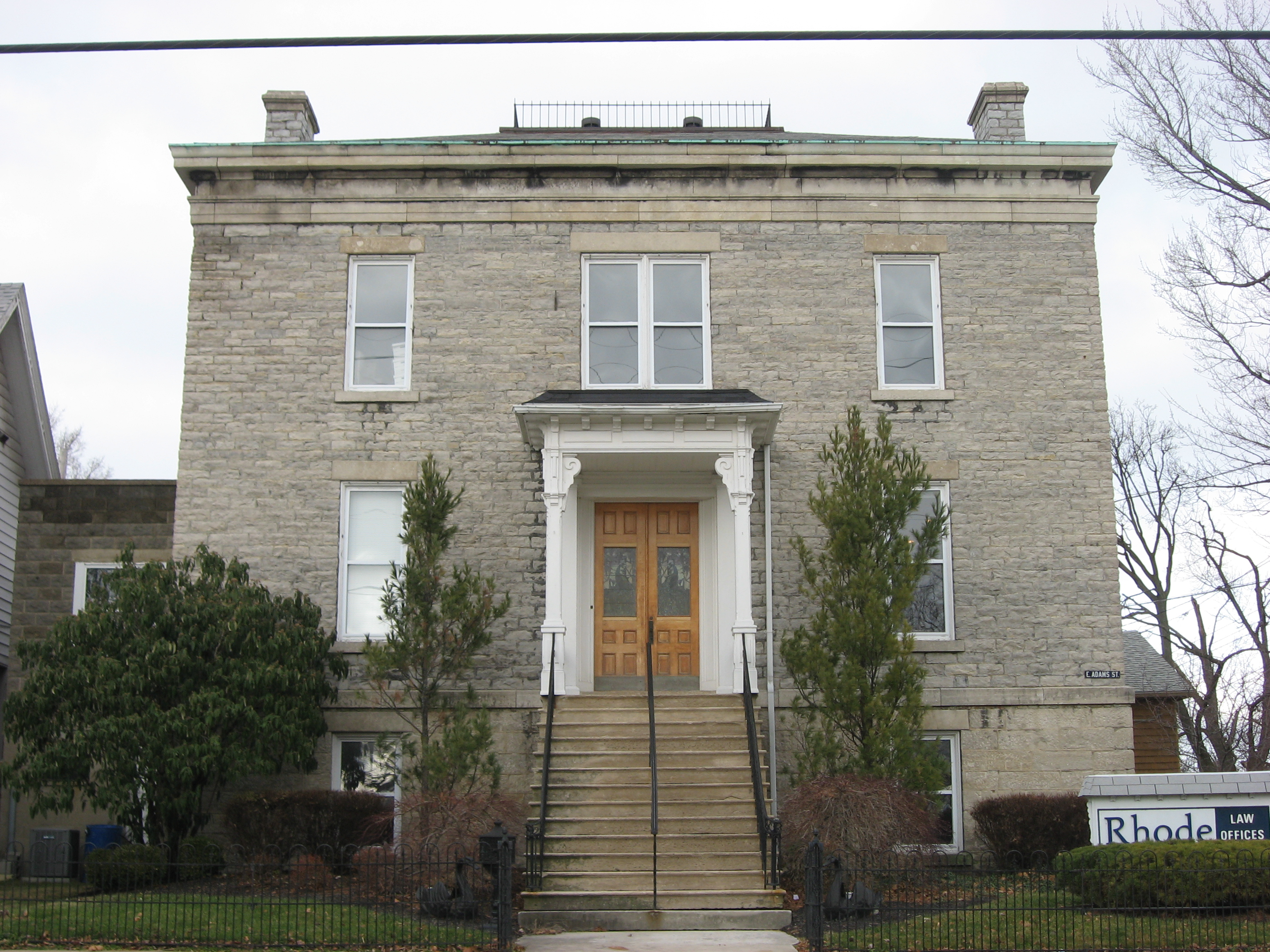 Front and eastern side of the Joseph Root House, located at 231 E. Adams Street in Sandusky, Ohio, United States. Built in 1852 and since converted into law offices, it is listed on the National Register of Historic Places.